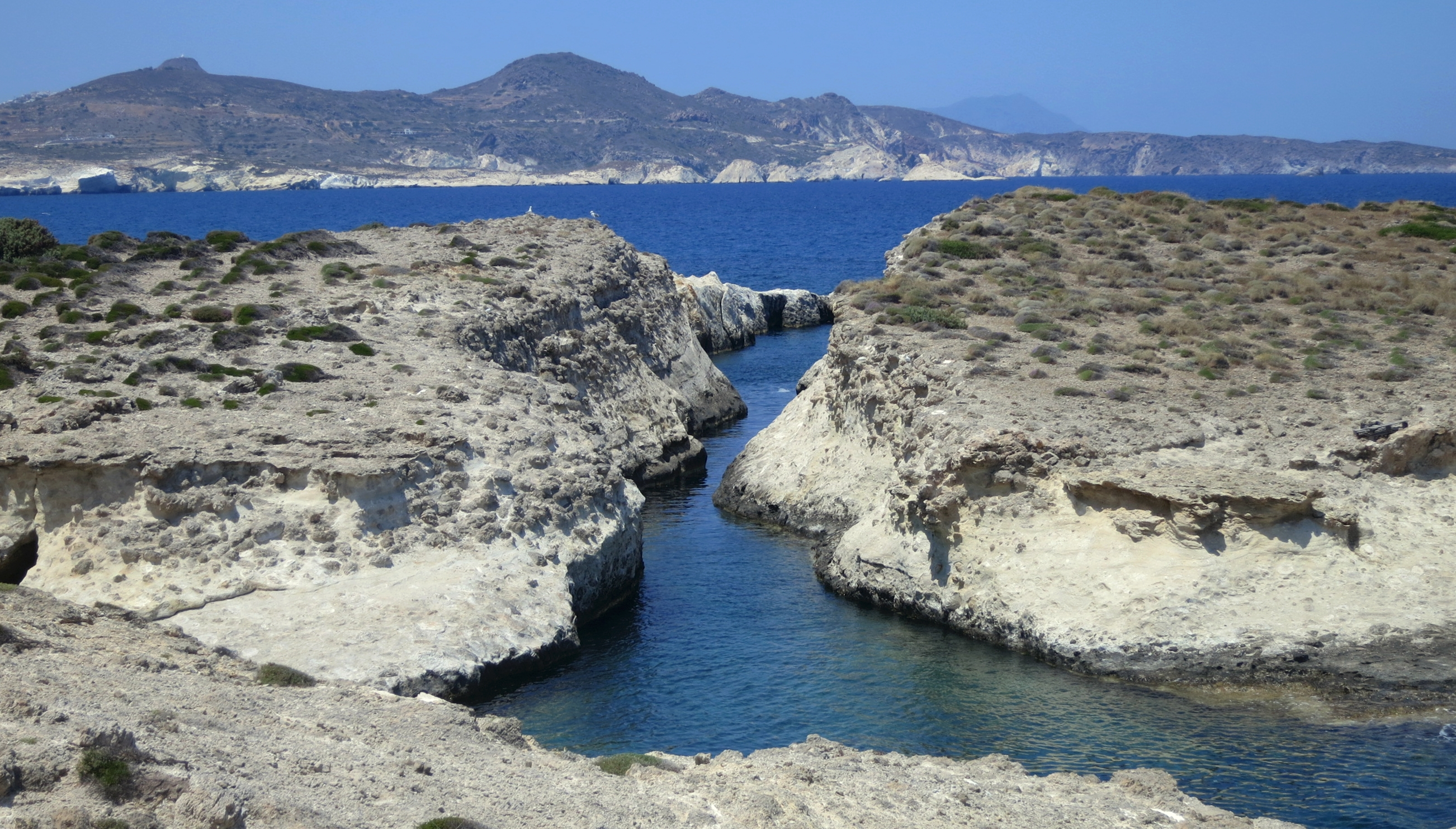 Between Mytakas and Ag. Konstantinos. Milos.